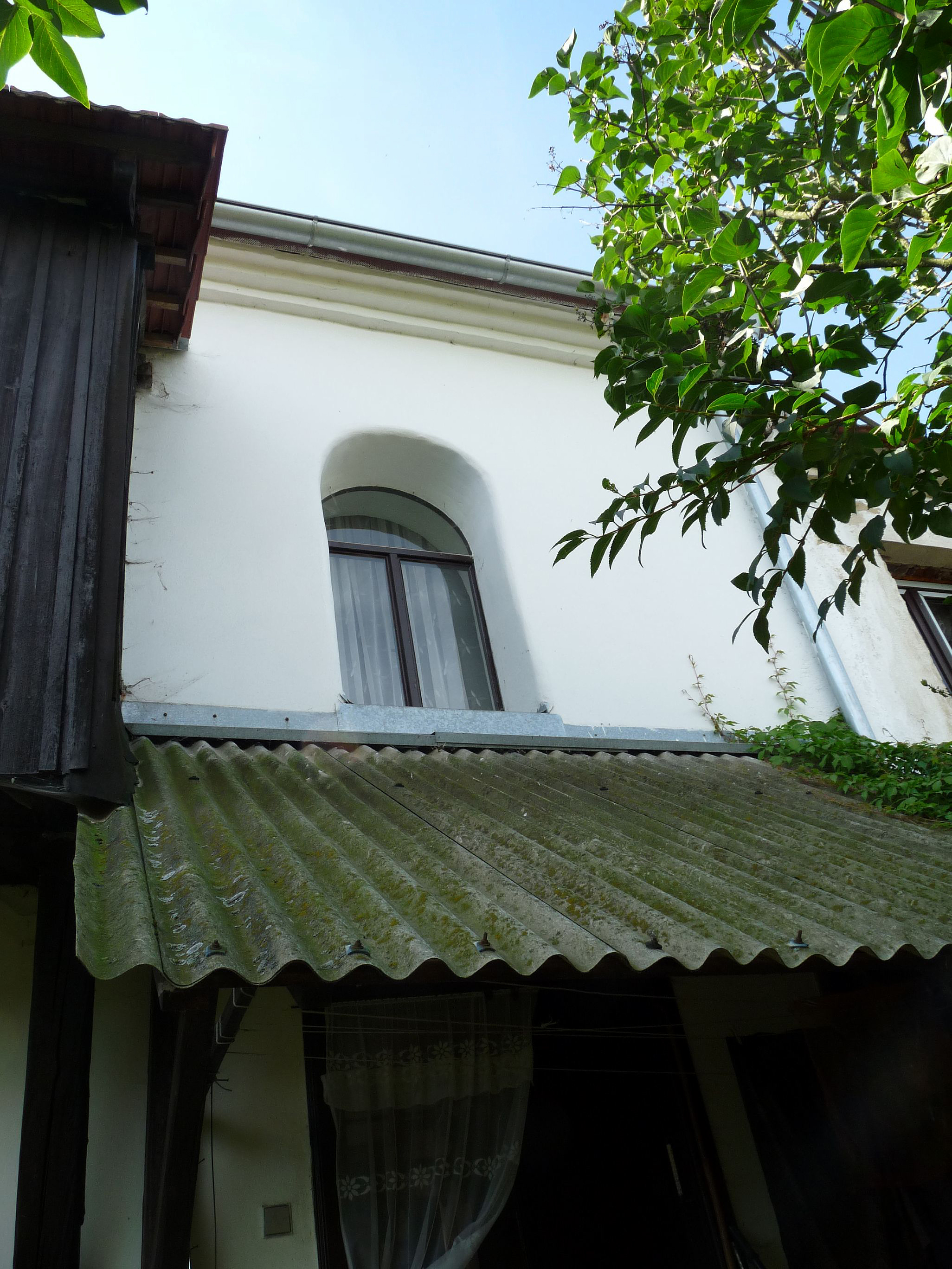 Former synagogue in the village of Dub, Prachatice District, Czech Republic, view towards the last window the shape of which has been preserved; the window itself was changed in spring 2011)